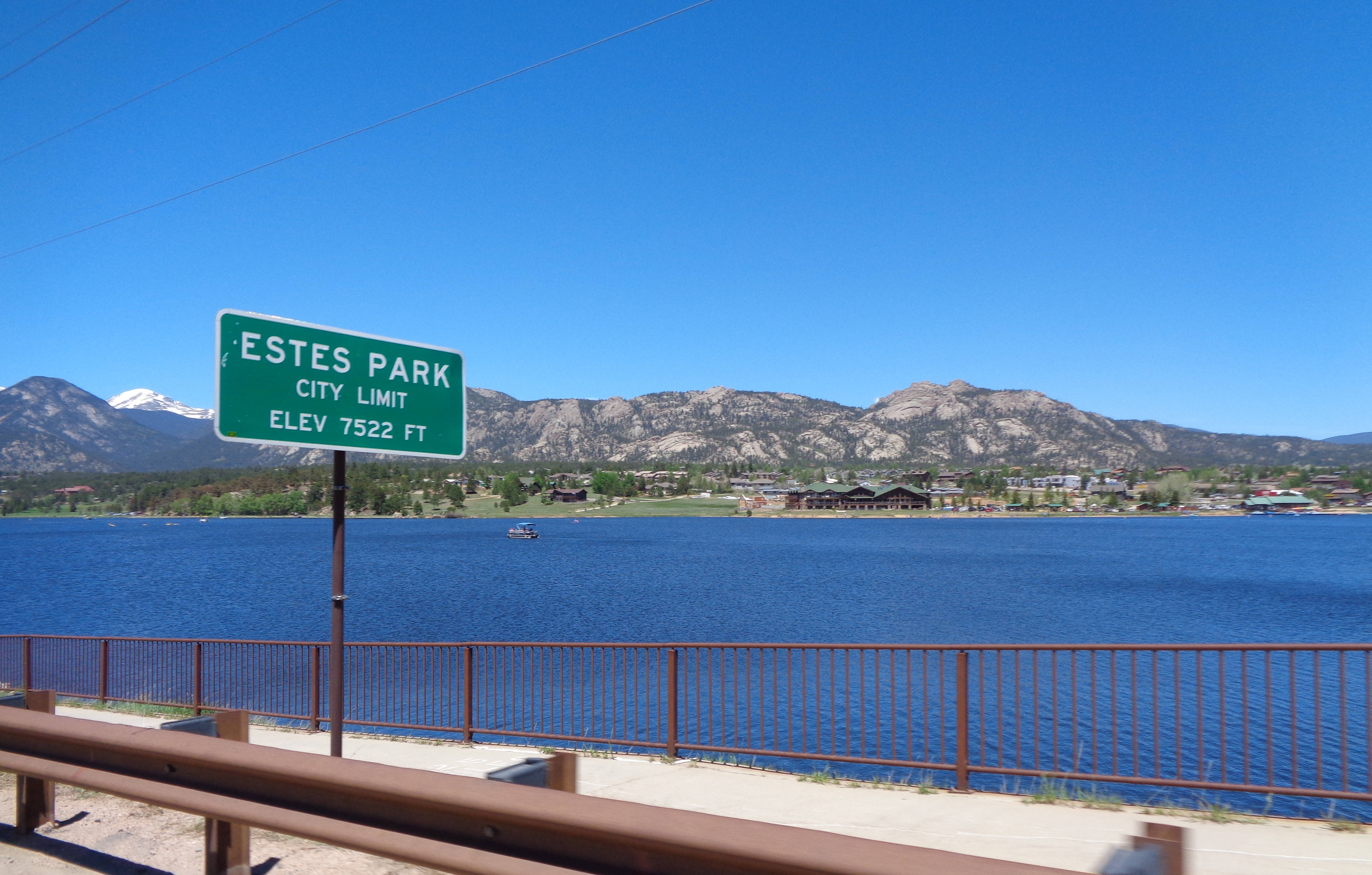 Estes Park, Colorado.